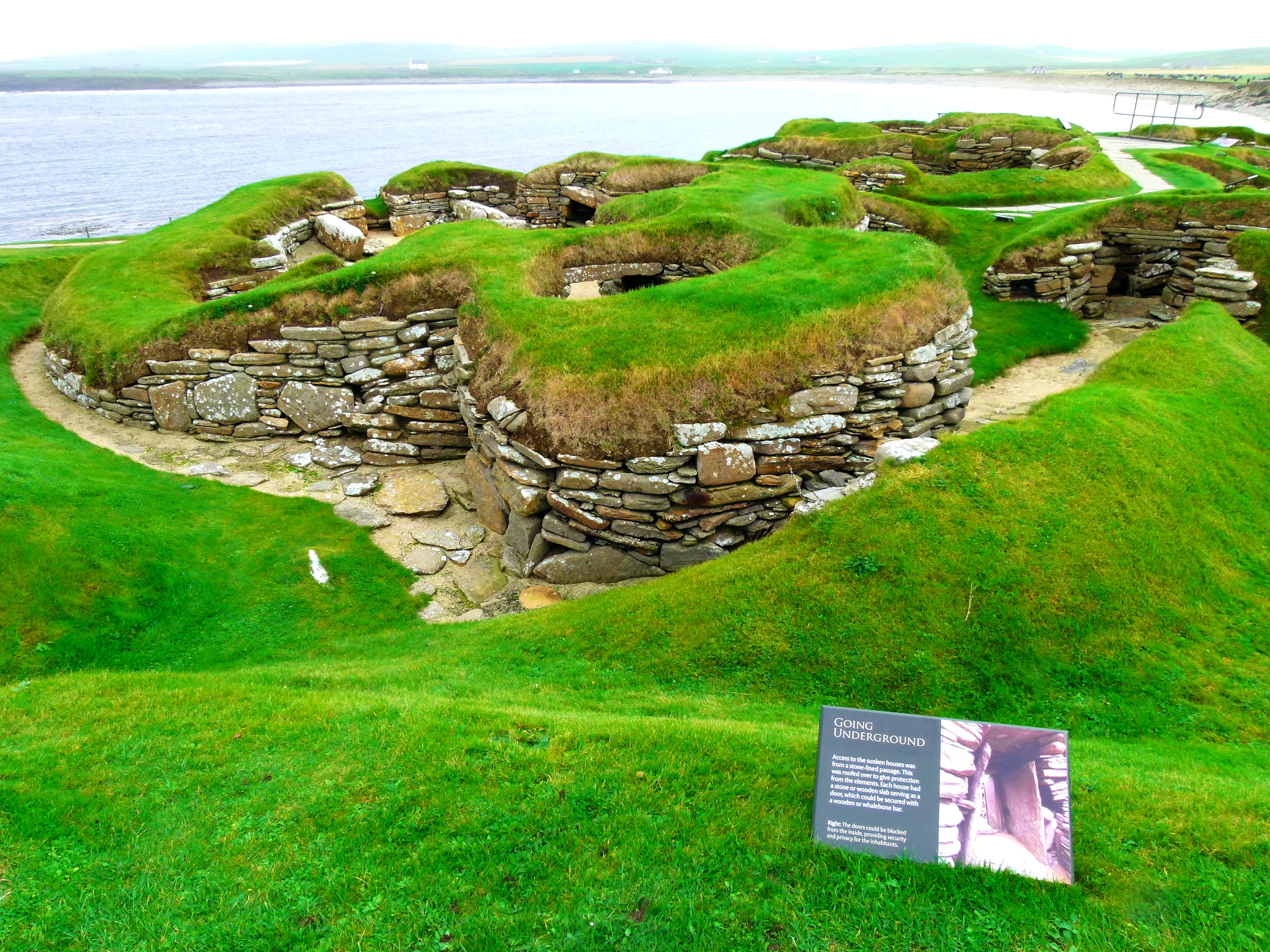 Skara Brae, a place, you have to visit